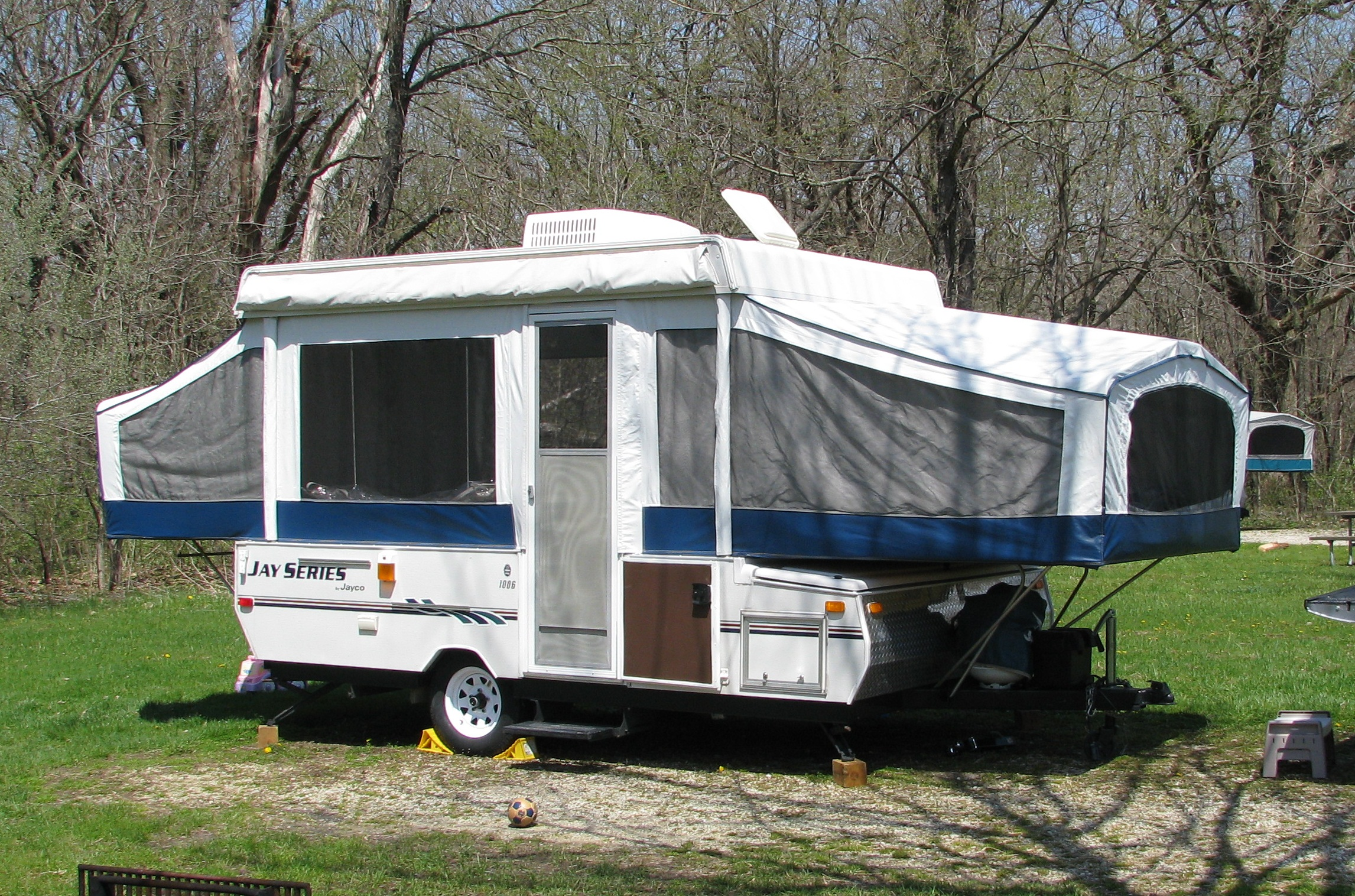 Jayco 1006 Pop-up Camper Trailer